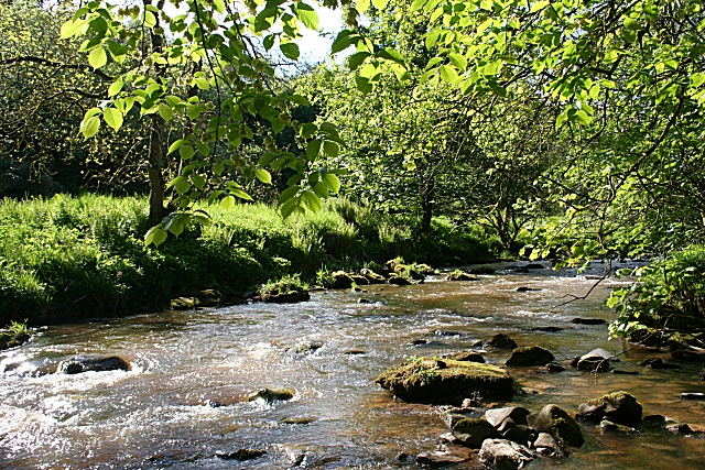 Kirtle Water This is one of the few spots on this reach of the river where there is a clearing on the otherwise densely vegetated banks.